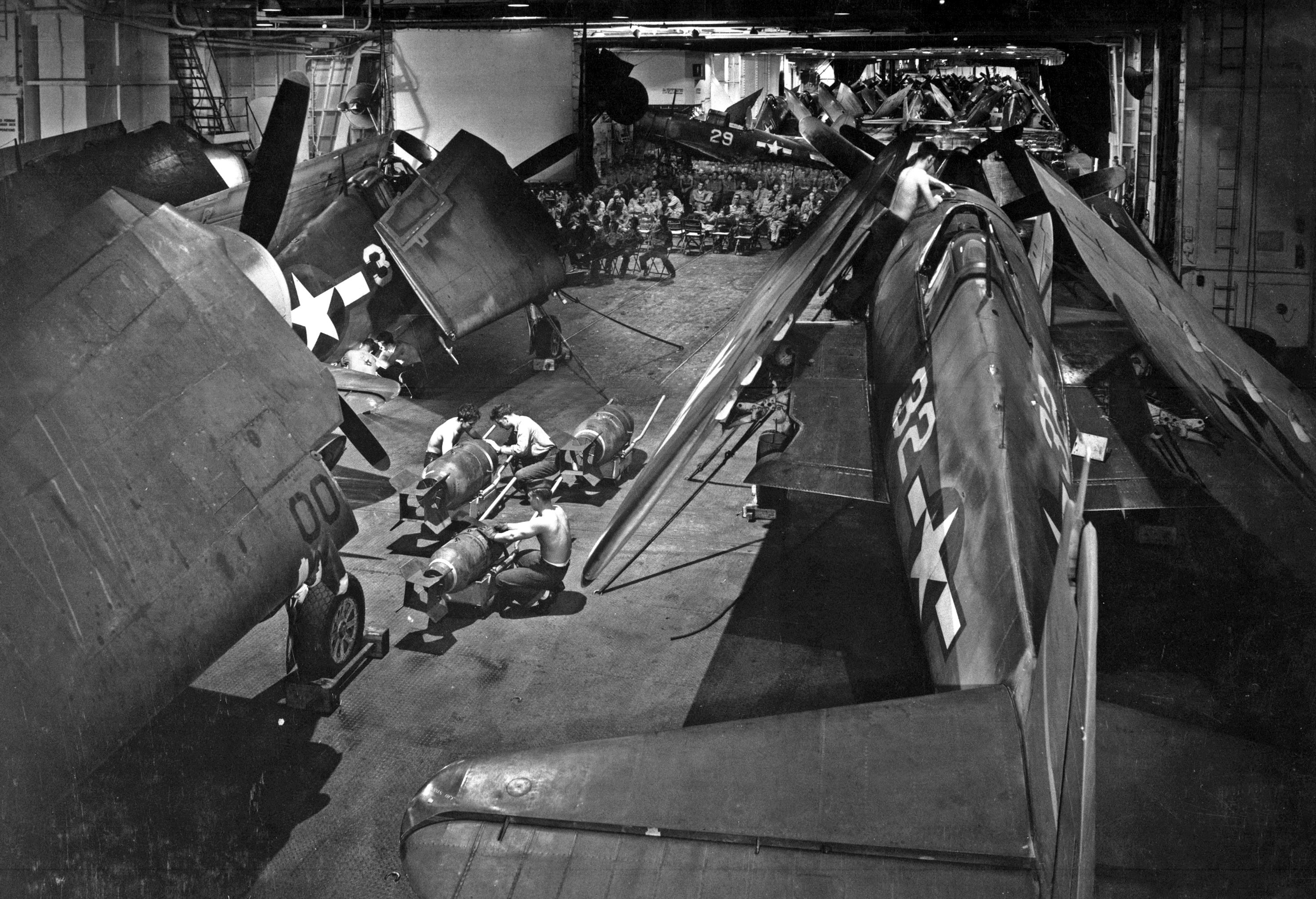 U.S. Navy ordnancemen working on bombs amid Grumman F6F-3 "Hellcat" fighters parked on the hangar deck of the aircraft carrier USS Yorktown (CV-10), circa October-December 1943. Other crewmen are watching a movie in the background. Bombs appear to include two 1000-pounders and one 500-pounder.